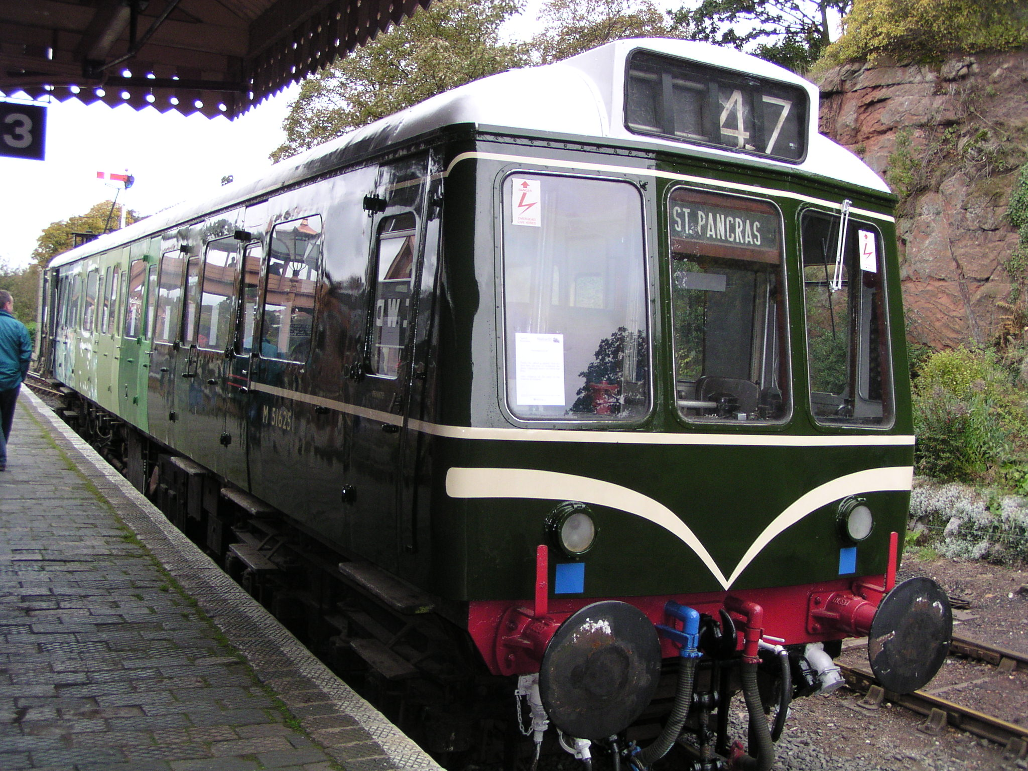 BR Class 127, no, 51625 at Bewdley on the Severn Valley Railway on 15th October 2004, whilst on display at the Railcar 50 event. This vehicle has been part-restored to its original condition, having been rebuilt as a parcels unit (numbered 55976) in 1985. This vehicle is preserved at the Midland Railway Centre, paired with driving motor 51591, and trailer 59609.